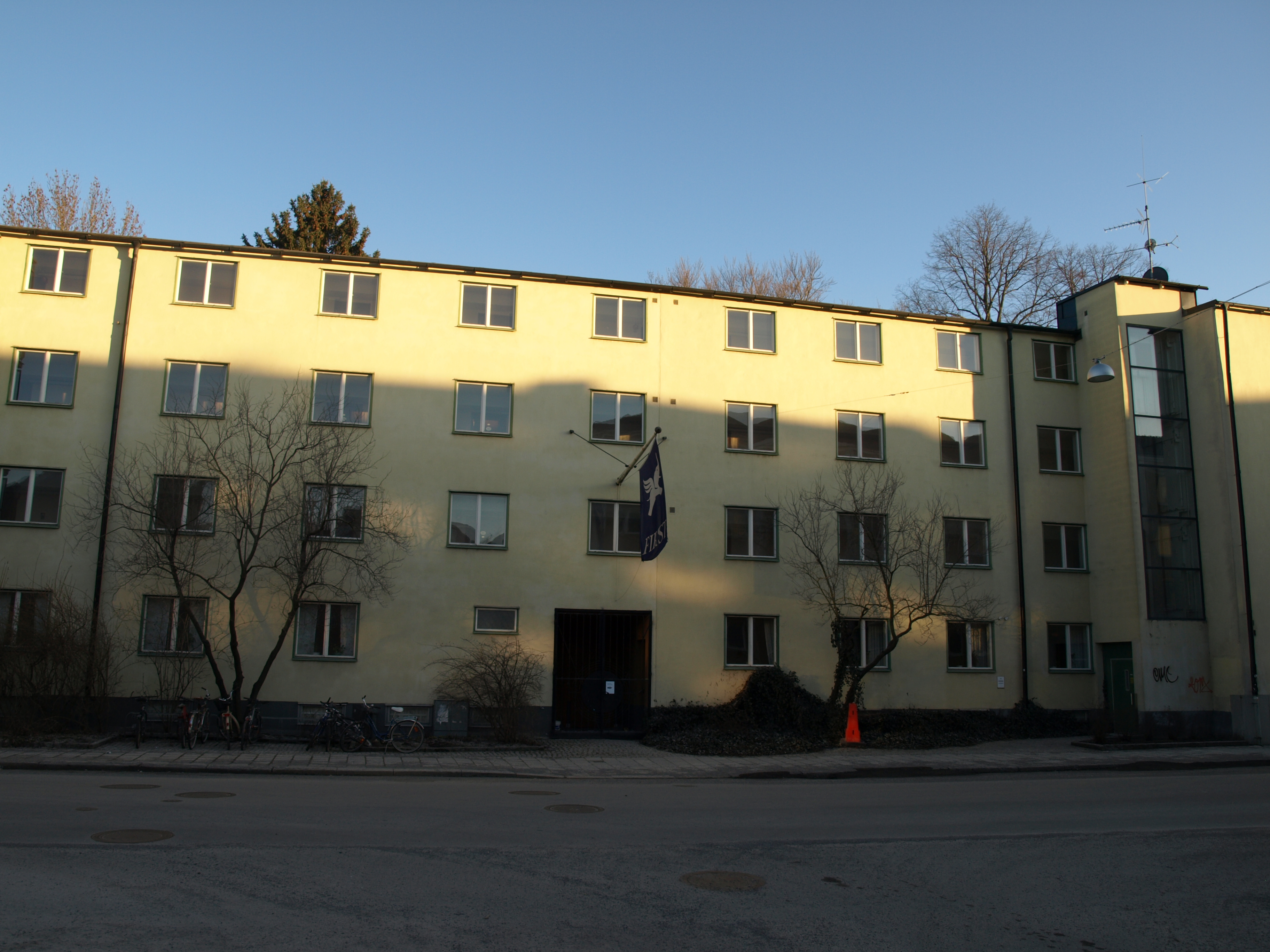 "Klosettpalatset", "The loo palace" in Uppsala, Sweden. A classic student home built 1936, which has got its name because it was the first student housing in Uppsala to be equipped with toilets with water. According to local legend, the students all decided to flush the toilets at the same time, which caused them to overflow as the sewers could not handle that amount of water at the same time. Today the house is part of First Hotel Linné.